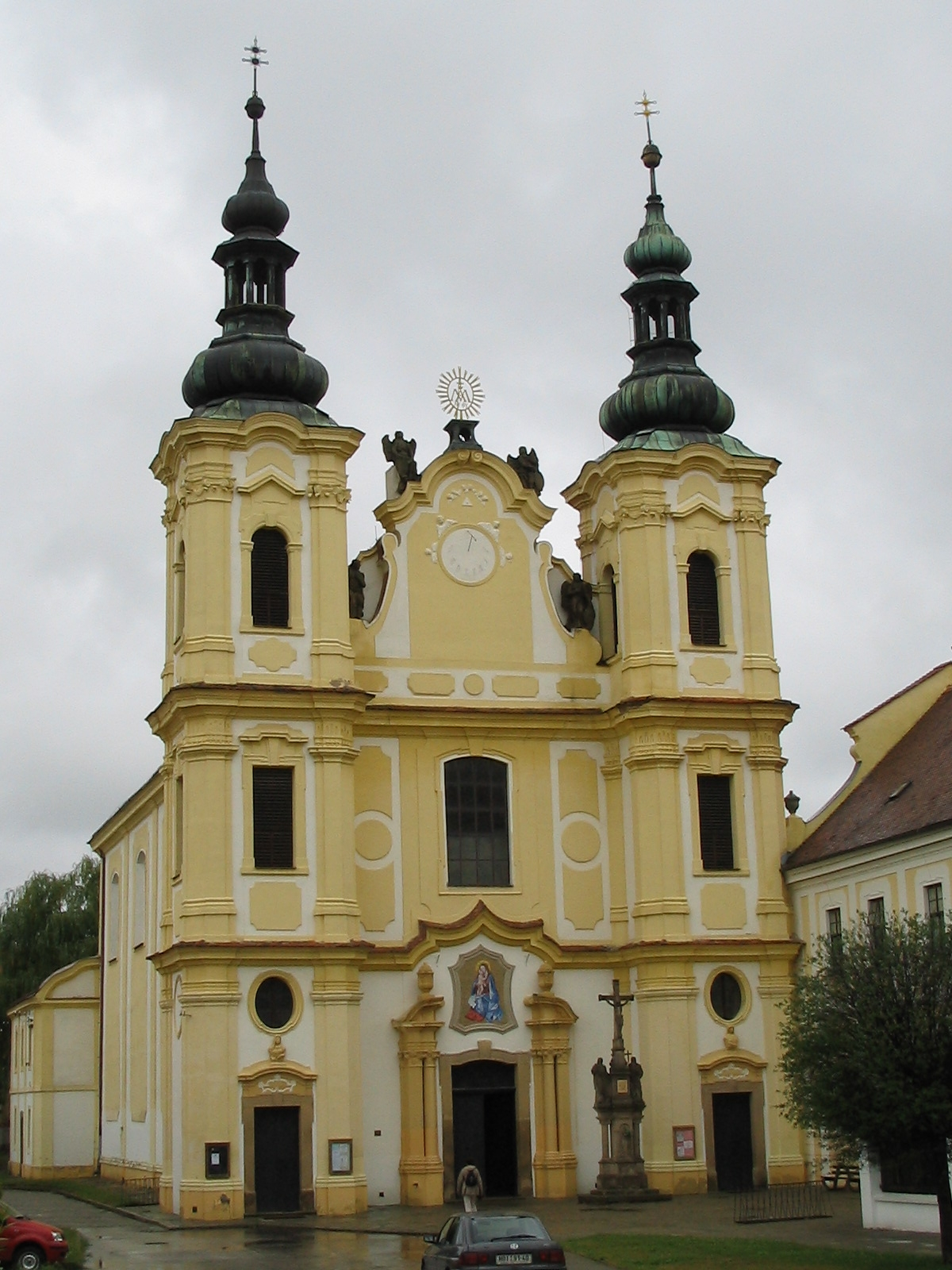 Church of the Assumption of the Virgin Mary, Strážnice, Czech Republic